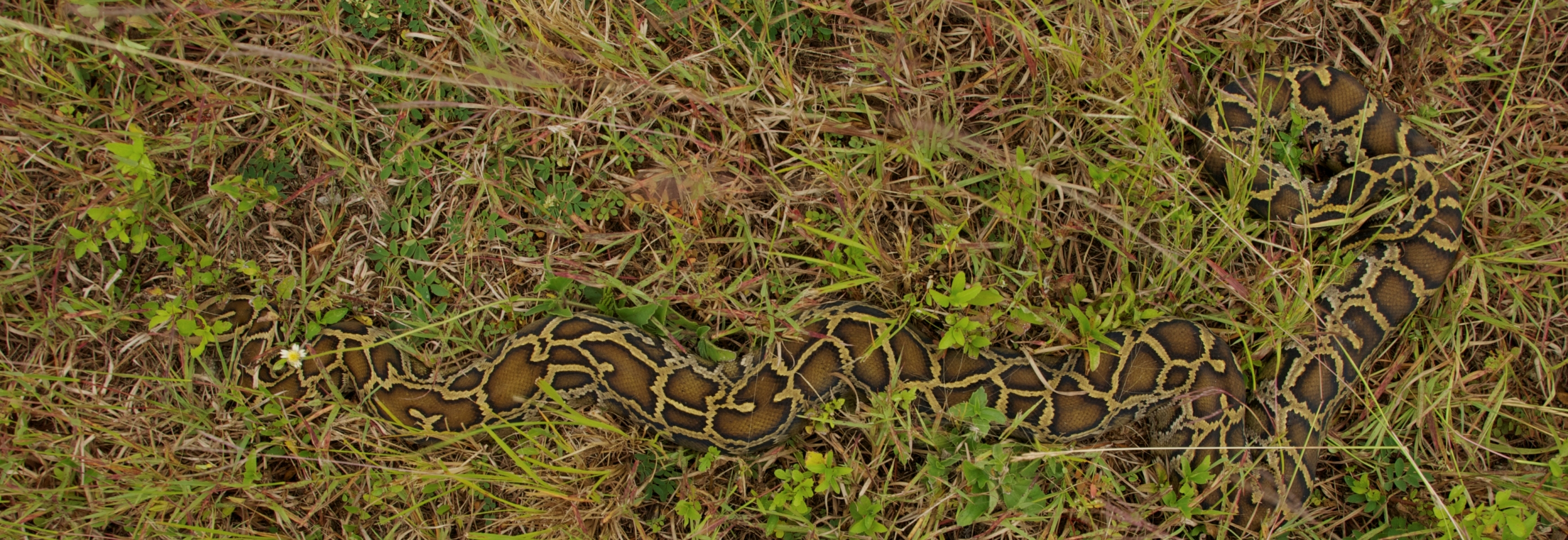 A Burmese python stretched out in the grass in the Everglades.